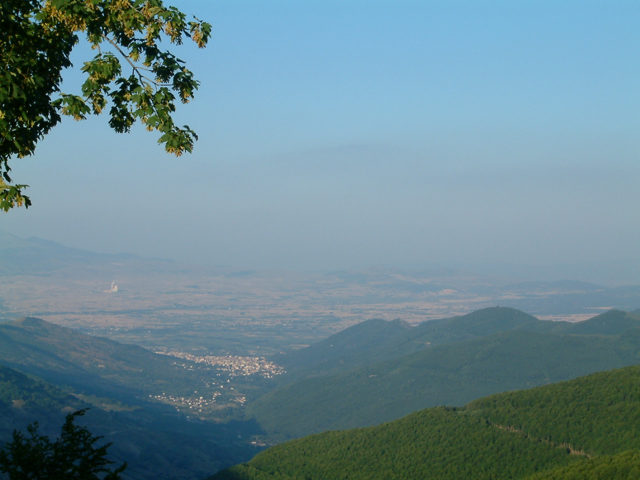 Semi-aerial view on the city of Florina, Greece. Taken from a mountain west of city. In background plain of Florina visible with coal-powered electricity plant in Meliti.